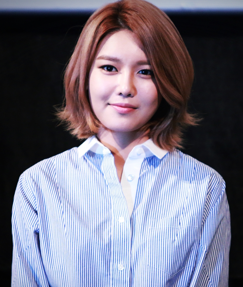 Sooyoung at "SM TOWN The Stage" Greeting on August 15, 2015